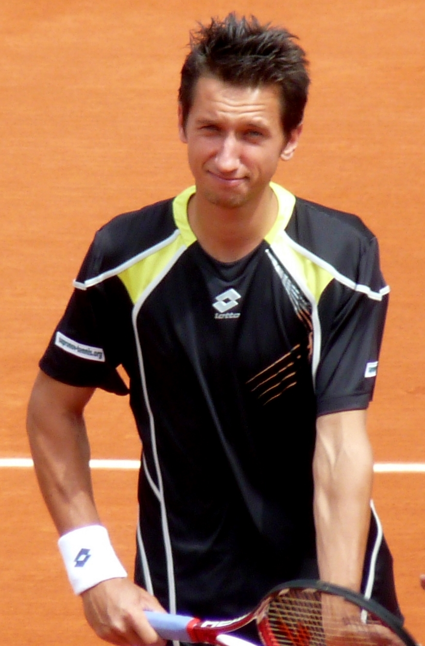 Sergiy Stakhovsky at 2009 Roland Garros, Paris, France